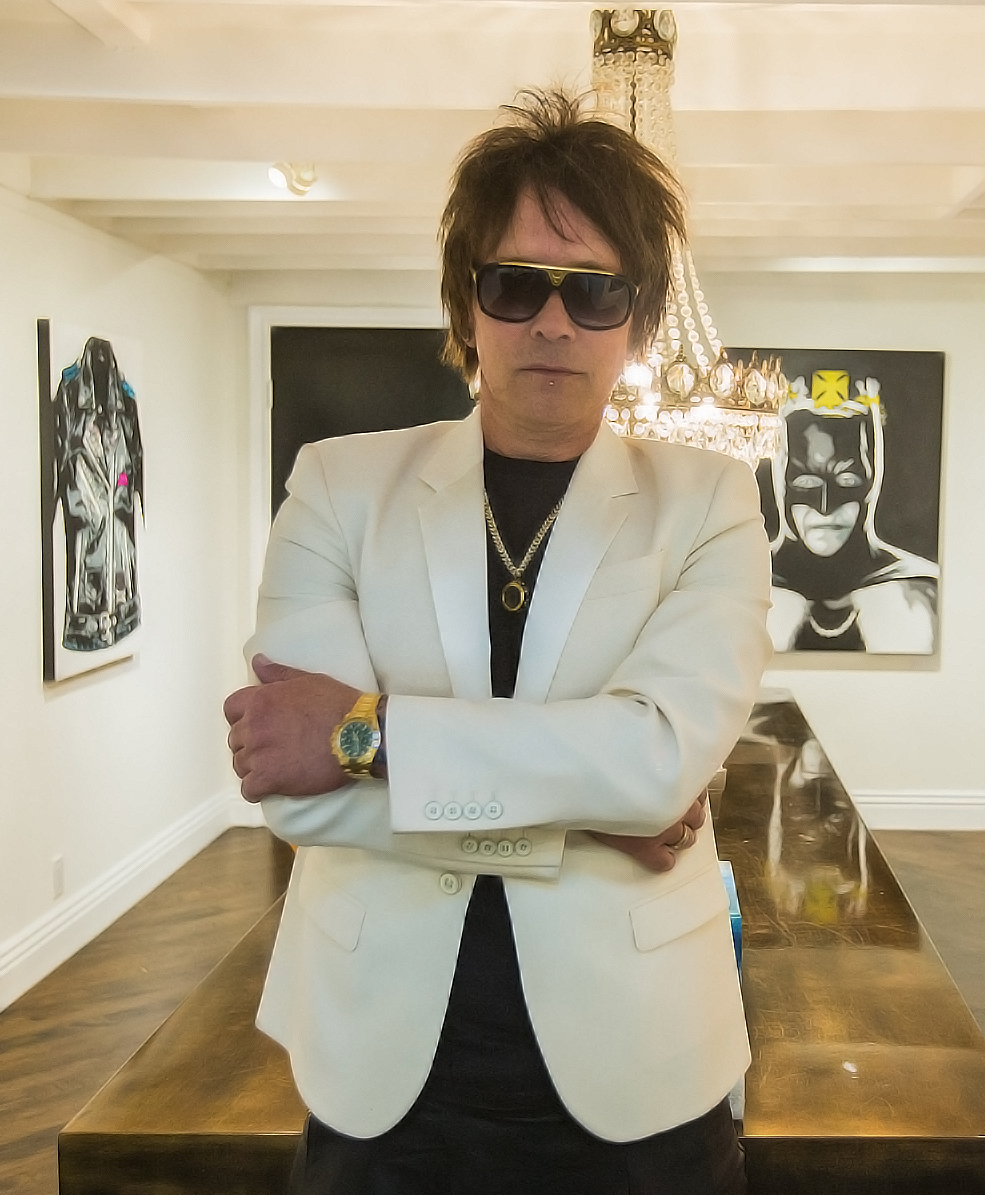 Visual and musical artist Billy Morrison at an art show